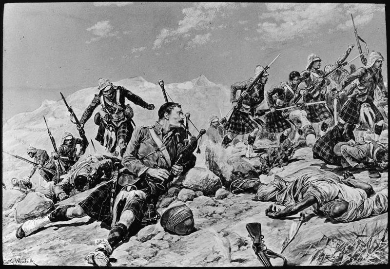 Victoria Cross Winners- Pre 1914 Photograph of a lithograph of George Findlater, awarded the Victoria Cross: India, Tirah Campaign, 20 October 1897.